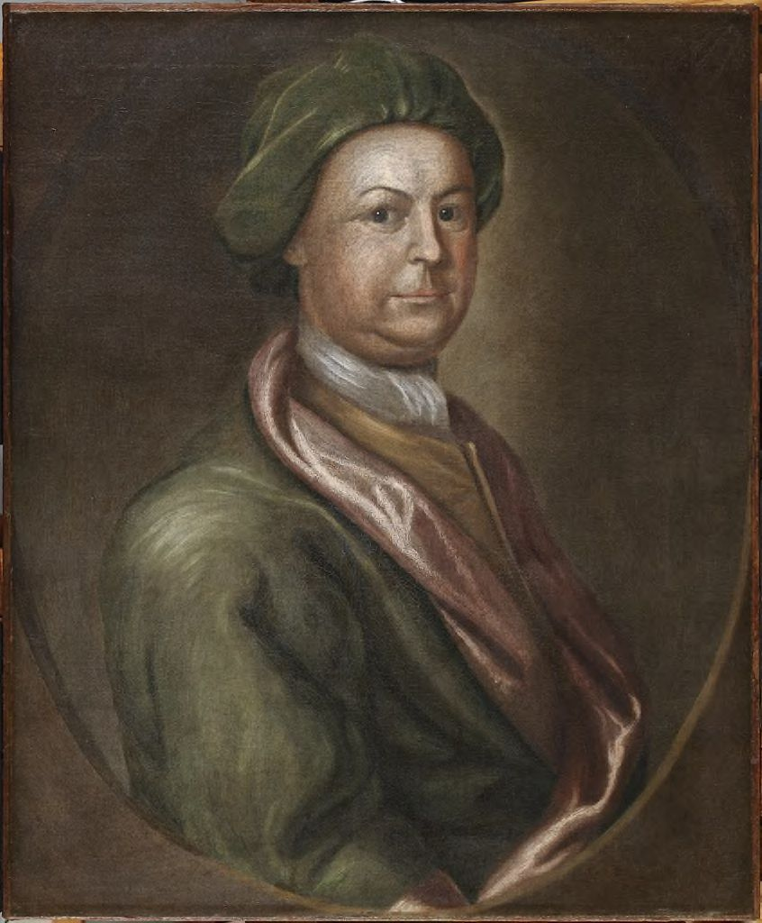 John Lovell (1710-1778)